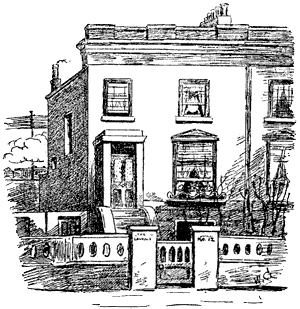 Drawing of "The Laurels", the fictional home of the Pooter family in The Diary of a Nobody